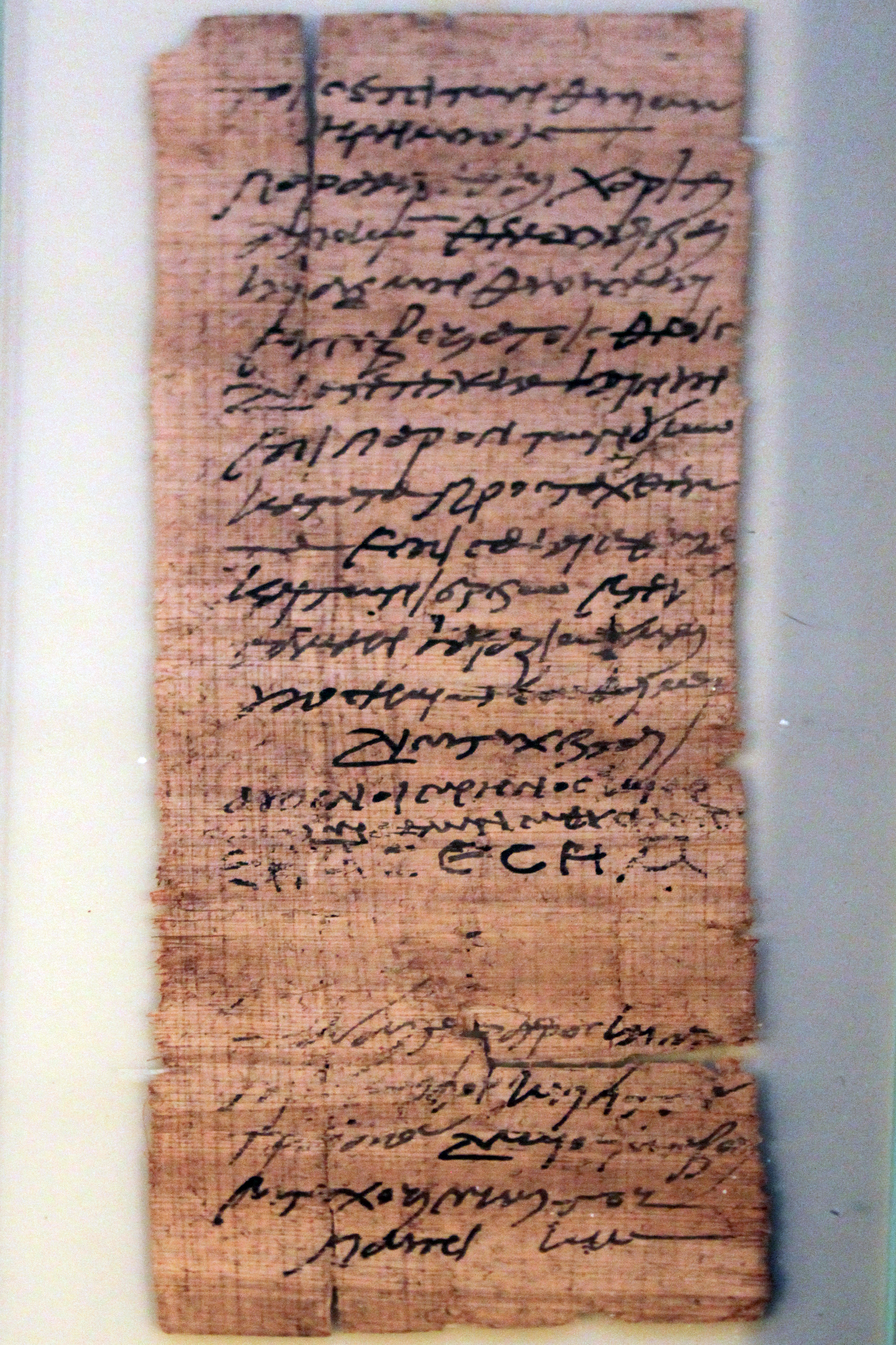 Egyptian Museum of Berlin Native nameÄgyptisches Museum und Papyrussammlung BerlinParent institutionNeues MuseumLocationBerlinCoordinates52° 31′ 12.86″ N, 13° 23′ 51.87″ E Establishedca. 1850Web page control : Q254156 VIAF: 124716958 ISNI: 0000 0001 2107 6344 LCCN: n90655341 GND: 5035773-6 SUDOC: 031948243 WorldCat institution QS:P195,Q254156 Certification of pagan sacrifices as proof of faith; greek; Theadelphia (Faijum), June 16, 250 AD; P 13430